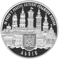 Coin of Ukraine